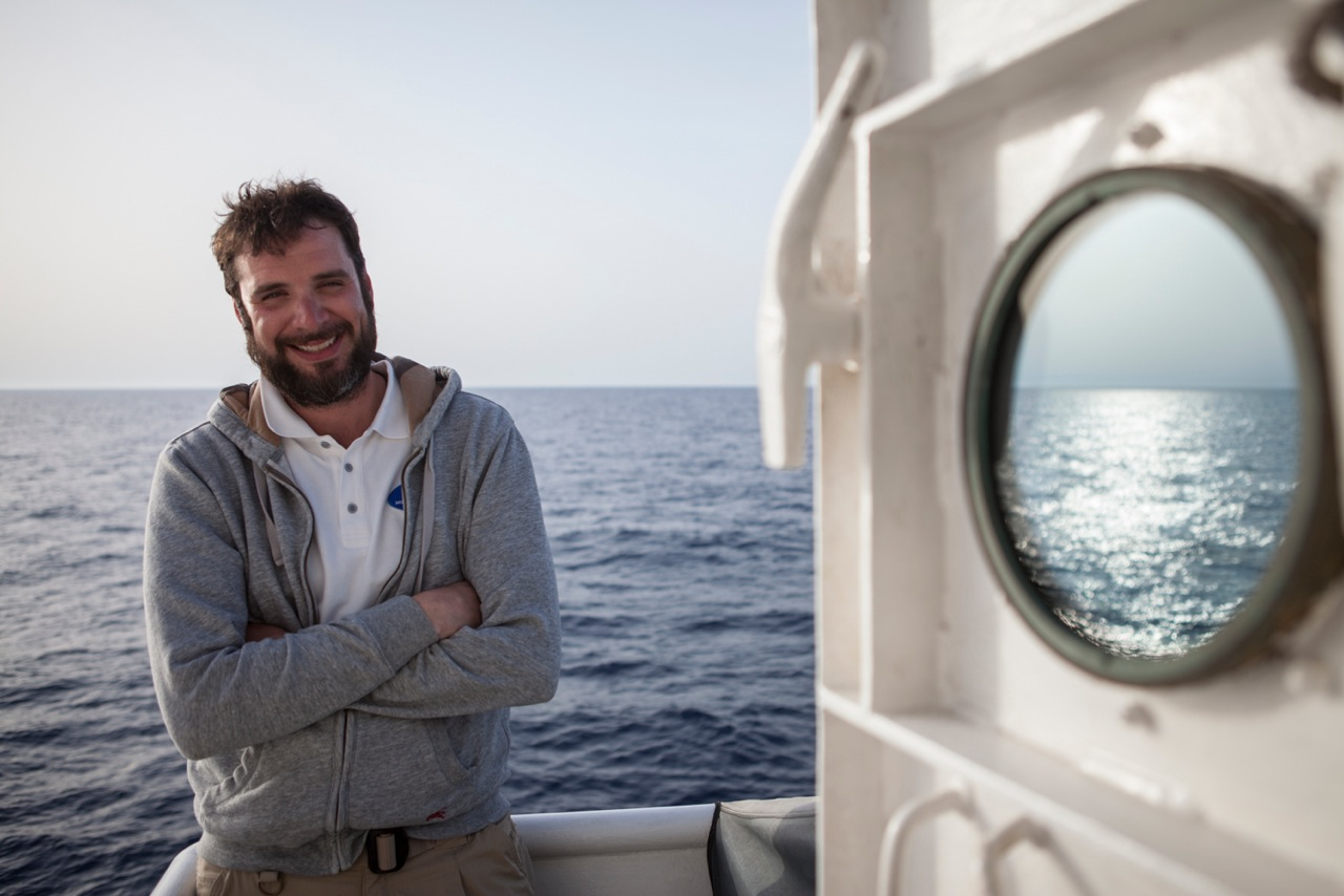 Christopher Catrambone on the Phoenix, one of the vessels used by search and rescue charity Migrant Offshore Aid Station (MOAS)